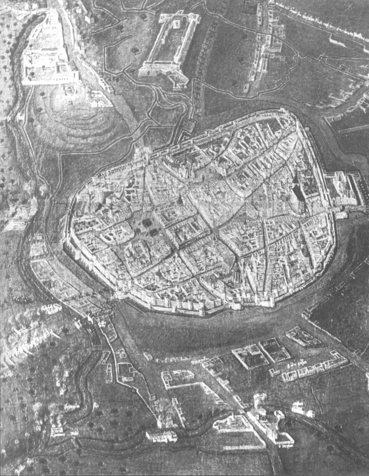 Brno in 1645-1646